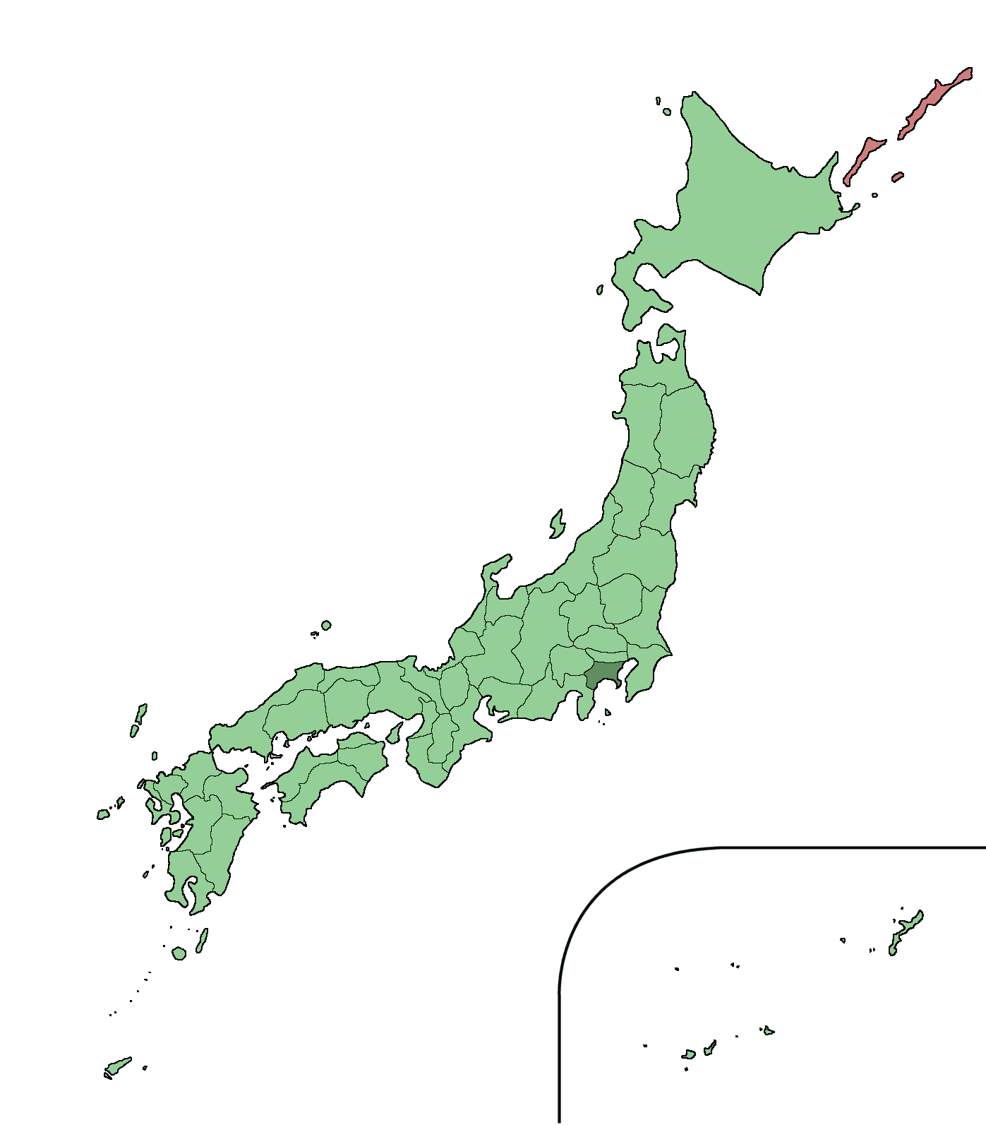 Large size map of Japan with Kanagawa highlighted in dark green, self made but originally based on a japanese mapbook.